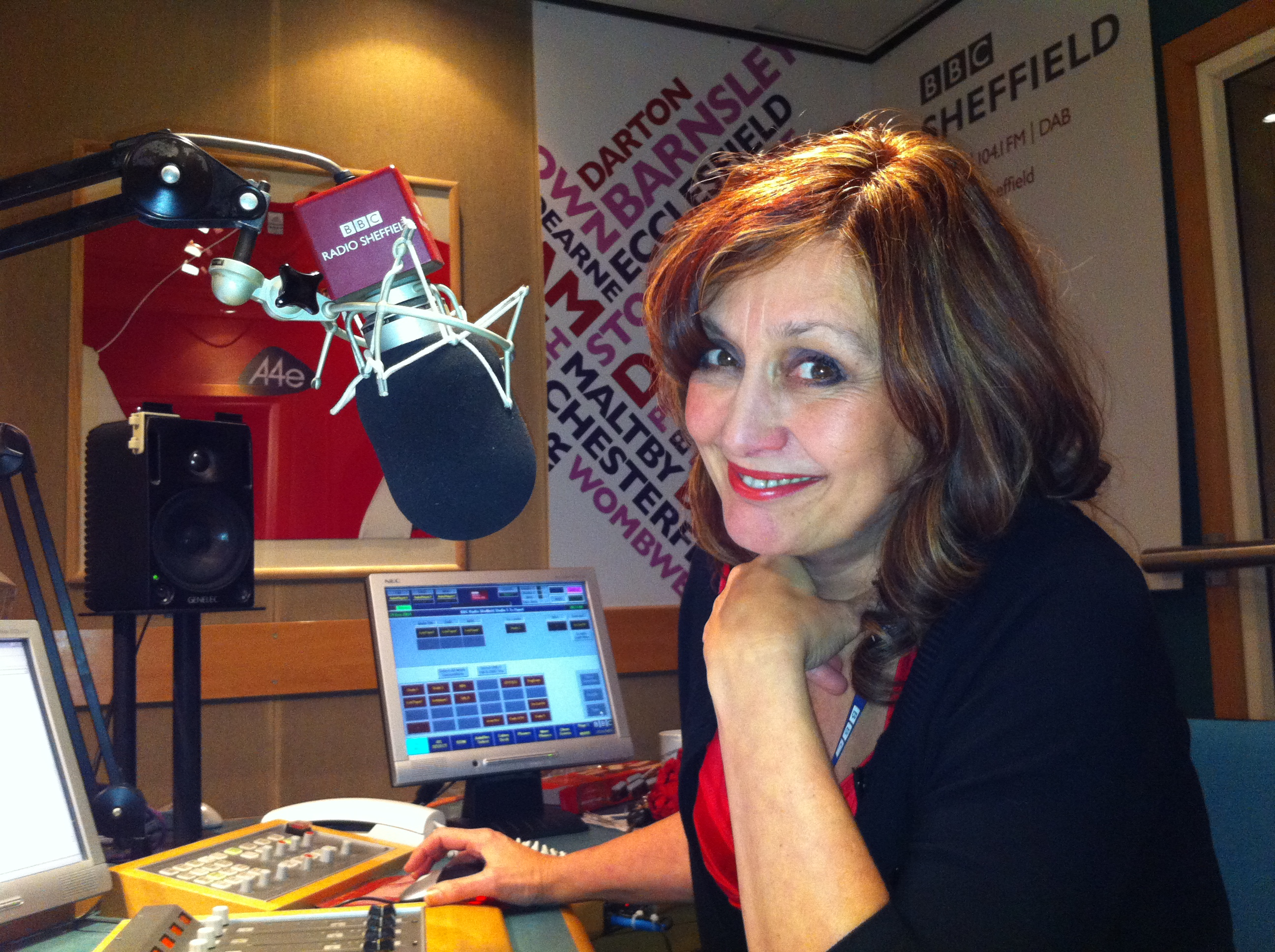 Diana Luke on air from Studio 1 at BBC Radio Sheffield, presenting "Diana Luke Loves The 60's"